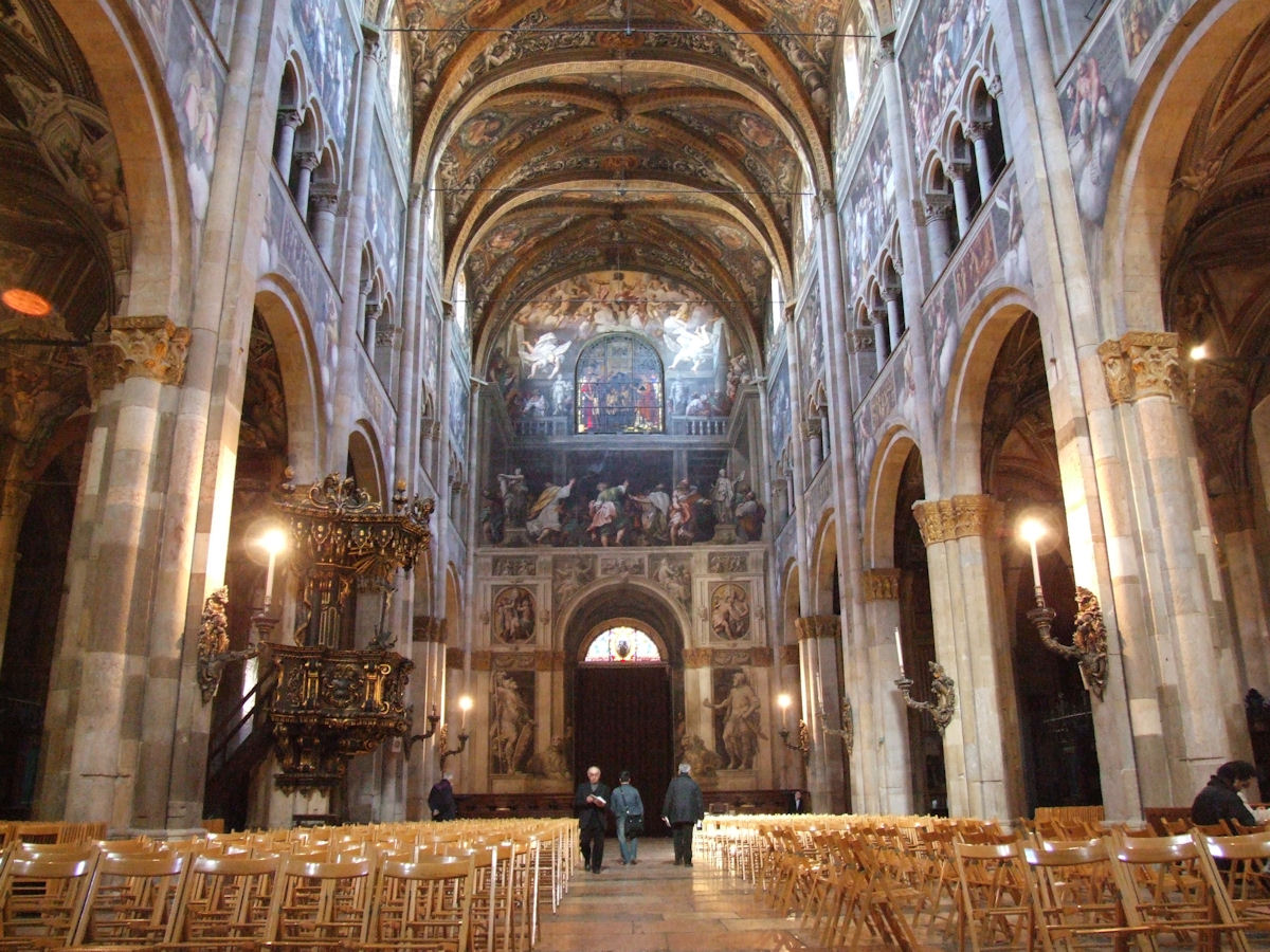 Duomo di Parma (Cathedral of Parma), Parma, Italy - Looking toward the west front